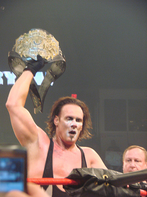 Professional wrestler Sting with the TNA World Heavyweight Championship at Bound for Glory